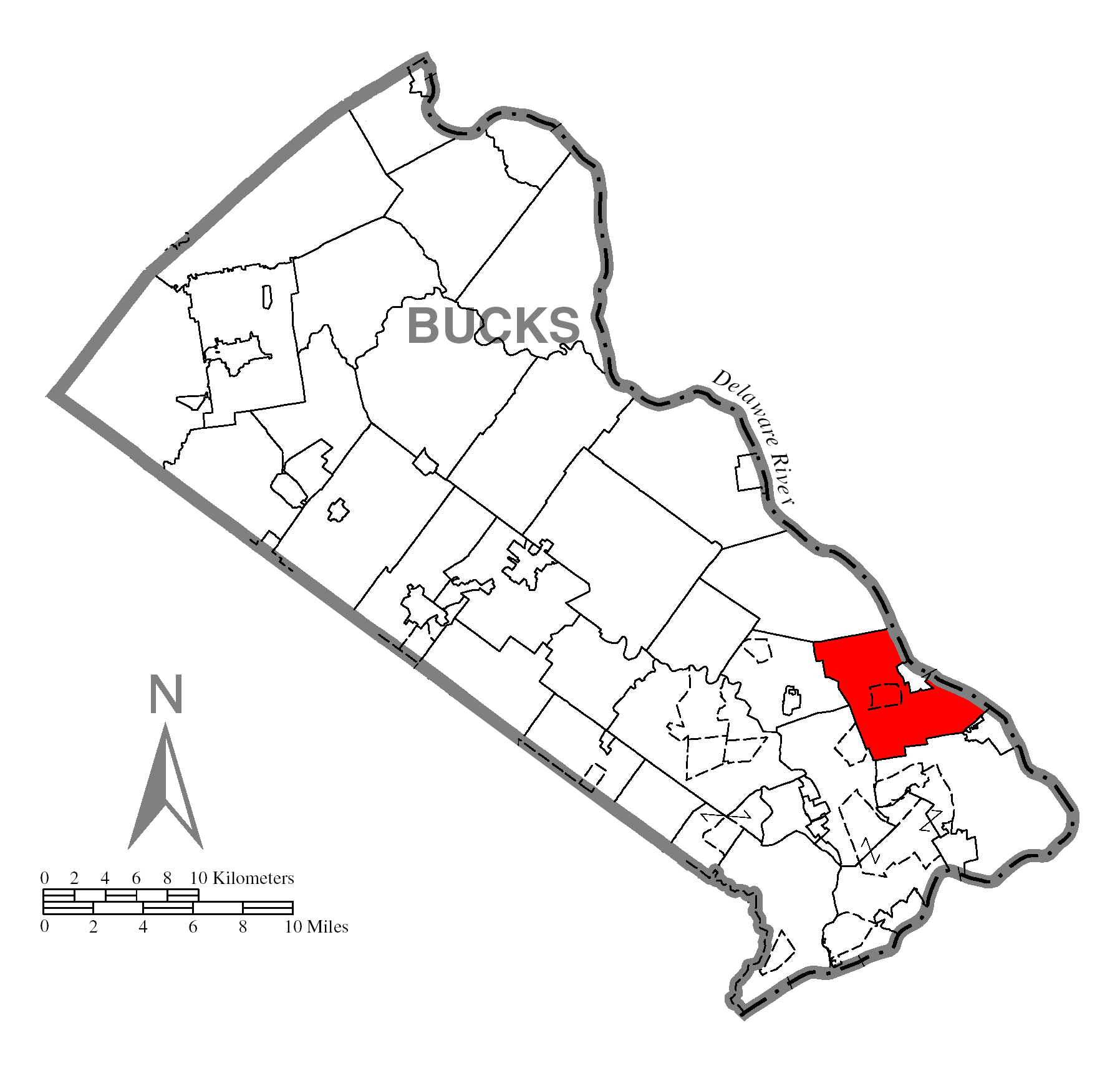 A map of Bucks County showing Lower Makefield Township, Pennsylvania (alternate) highlighted on the map.